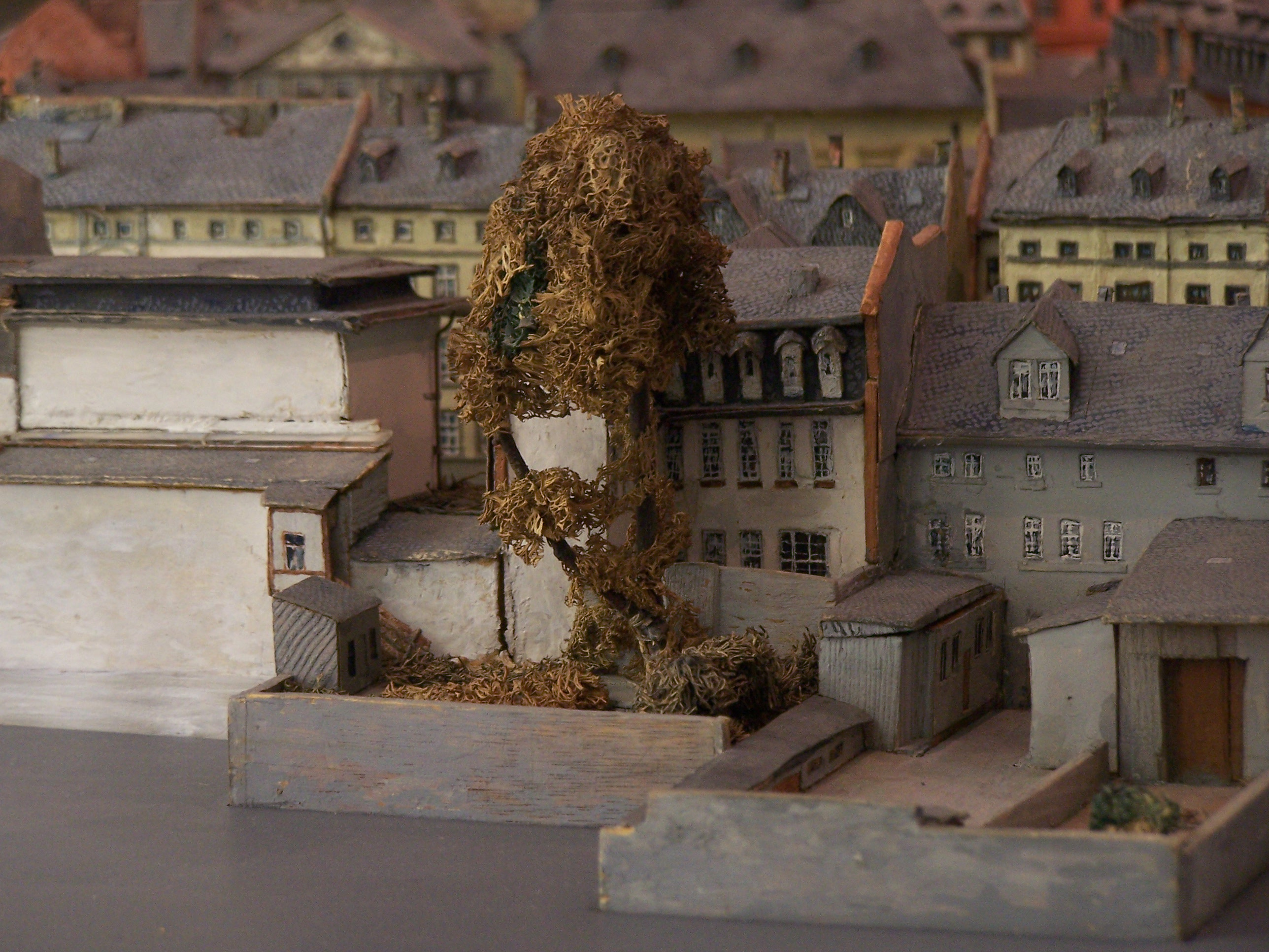 Treuner brothers model of ancient Frankfurt am Main, rear side of the Goethe-Haus seen from west